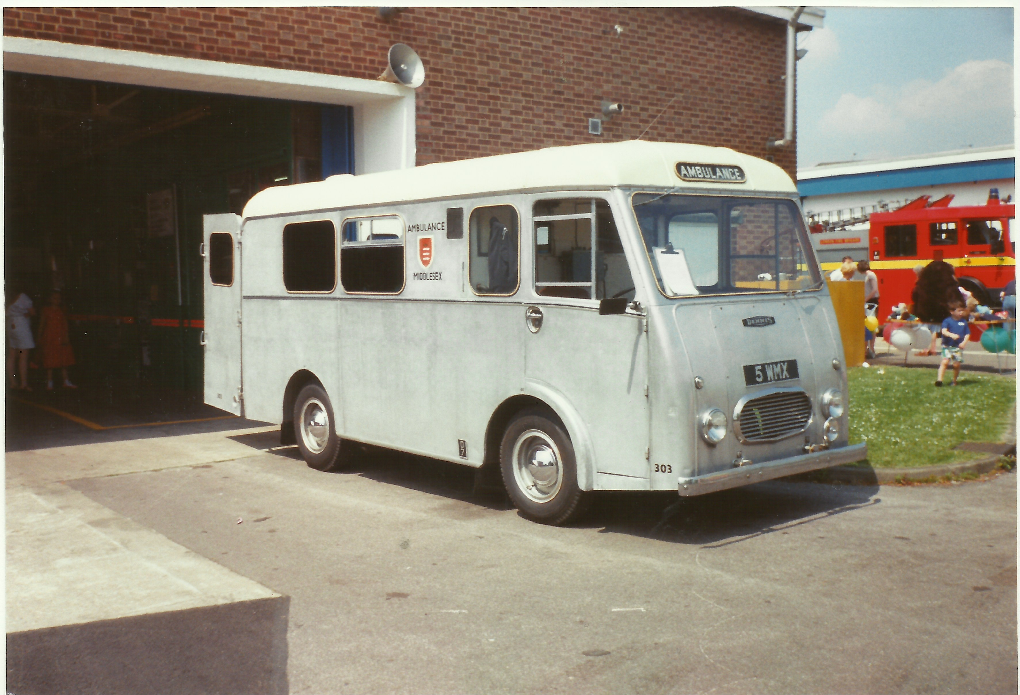 Dennis ambulance at an ambulance station open day in an East London Borough suburb, England 1993 am